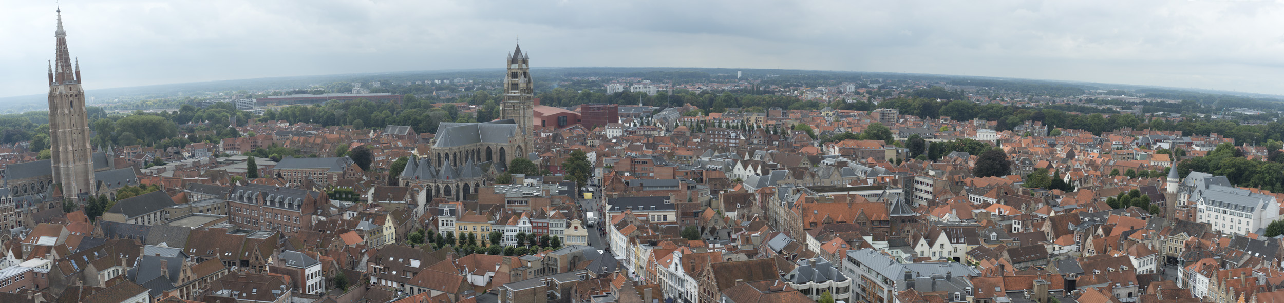 From the Belfort